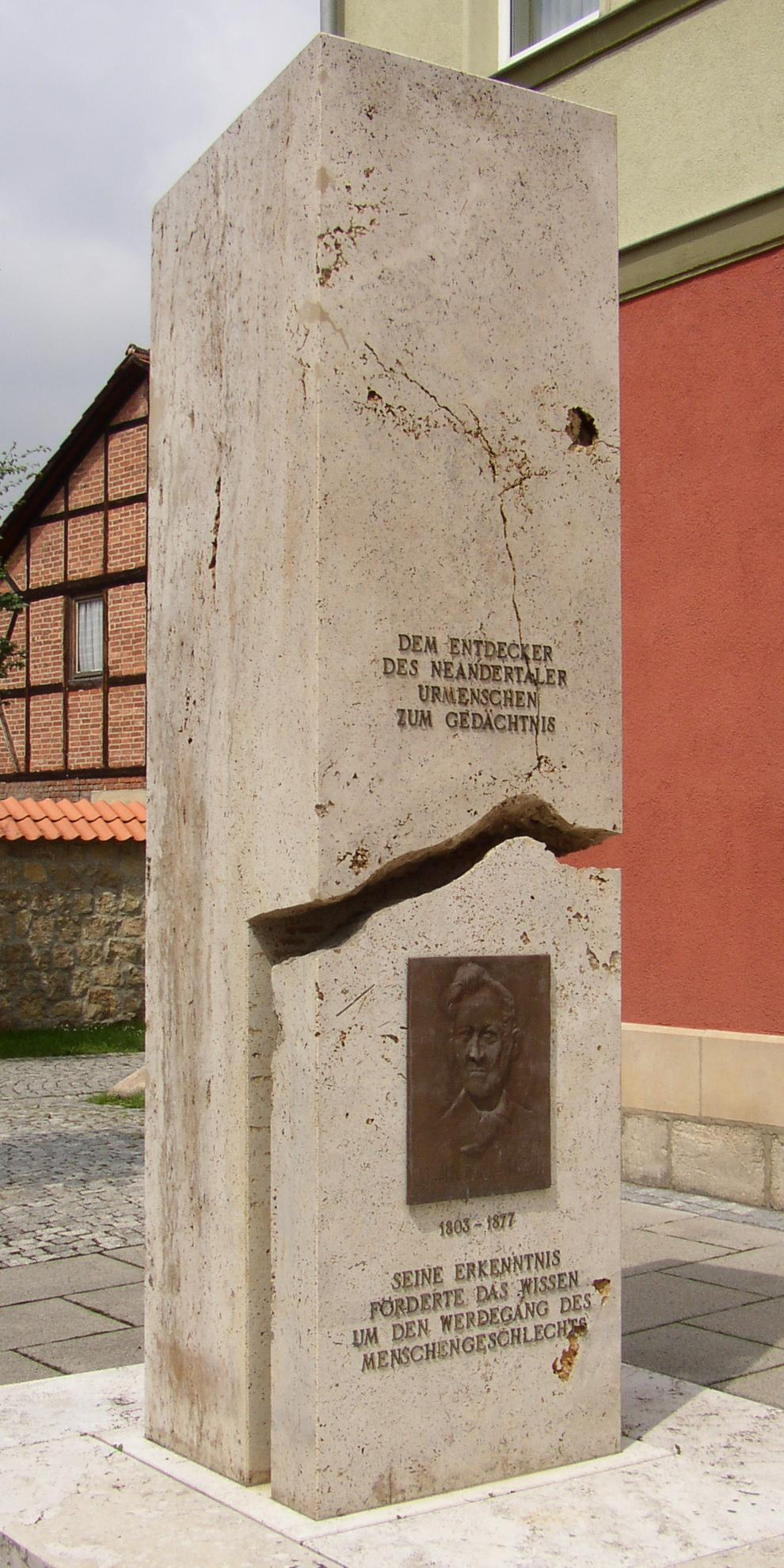 Memorial for Johann Carl Fuhlrott in Leinefelde in Thuringia, Germany